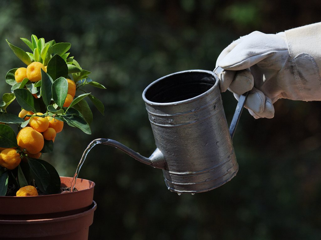 Small metal watering can - Watering a mini orange tree